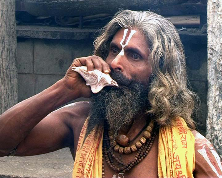 A shadhu in Pashupati